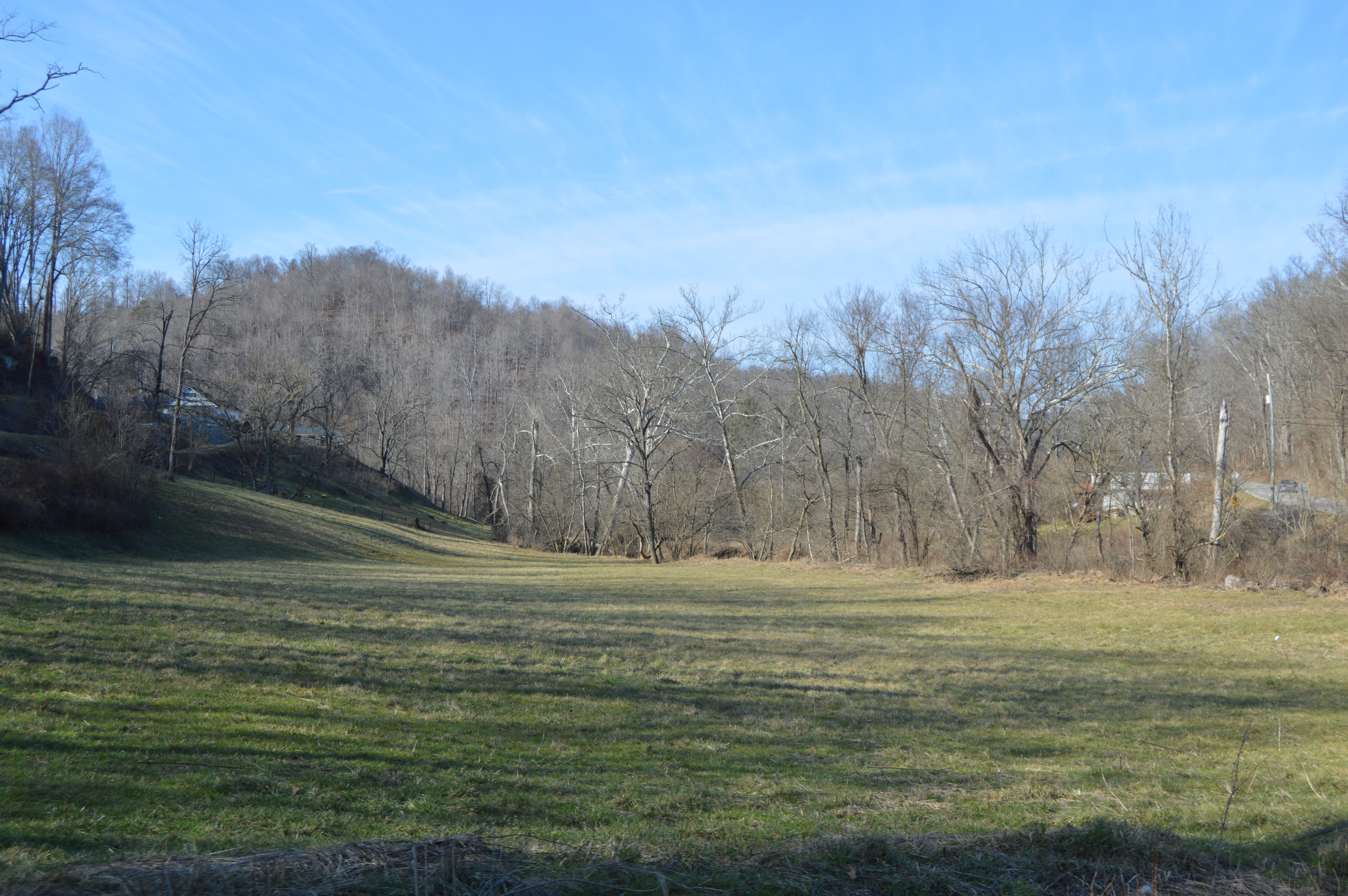 Fields and woods on the western side of Porter Gap Road northeast of Ironton in Upper Township, Lawrence County, Ohio, United States.